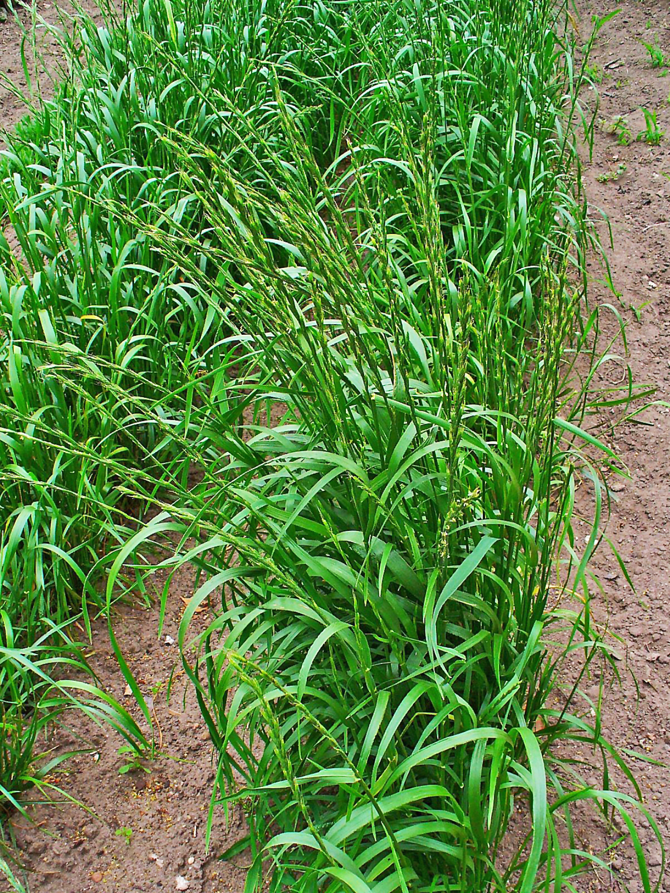 Lolium temulentum, Poaceae, Darnel, Cockle, habitus. The ripe, dried fruits are used in homeopathy as remedy: Lolium temulentum (Lol-t.)